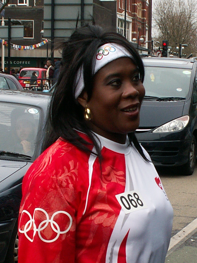 Tessa Sanderson giving interview after running Beijing Olympic Torch Relay in London at Stratford on April 6, 2008